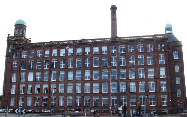 Mile End Mill See another view of the mill here 371316.